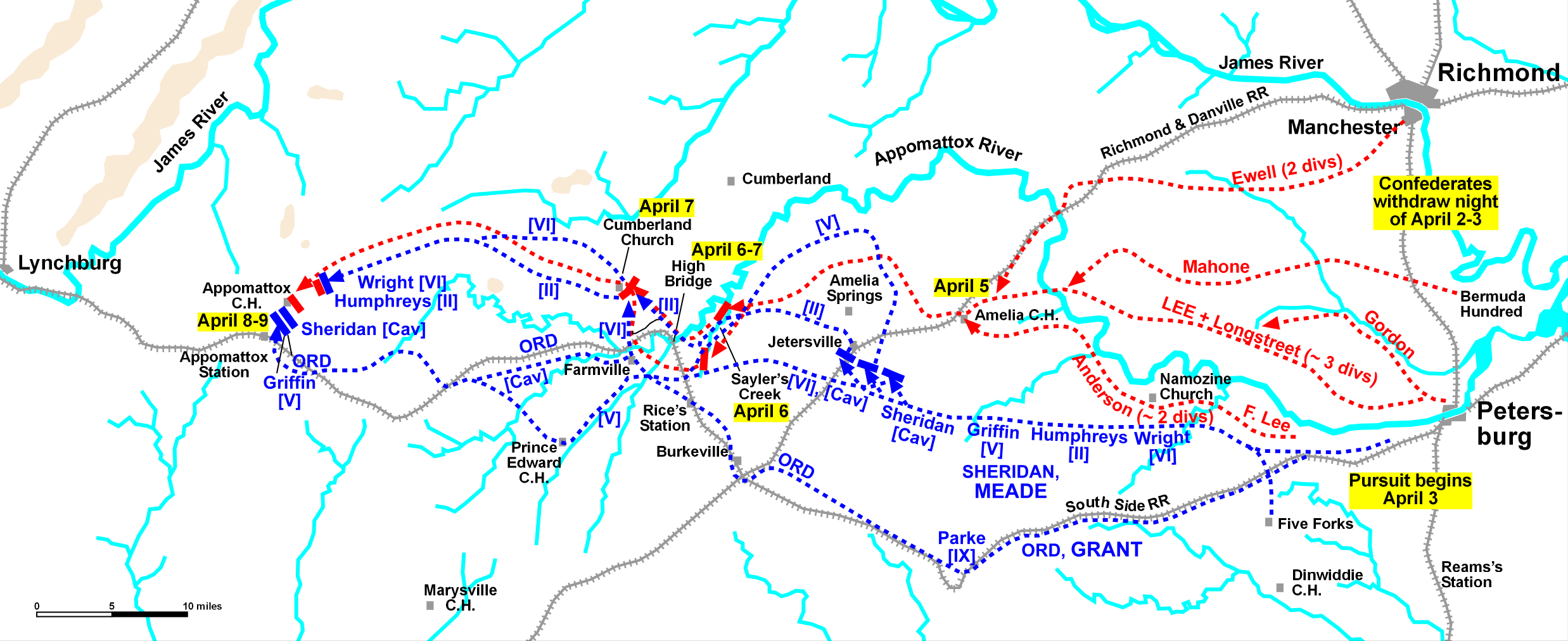 Map of the Appomattox Campaign of the American Civil War.